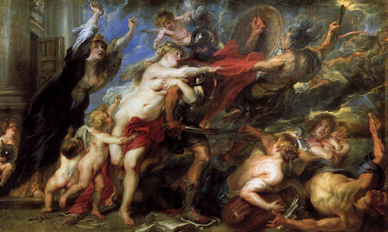 The Consequences of War, Oil on canvas, 206 x 342 cm